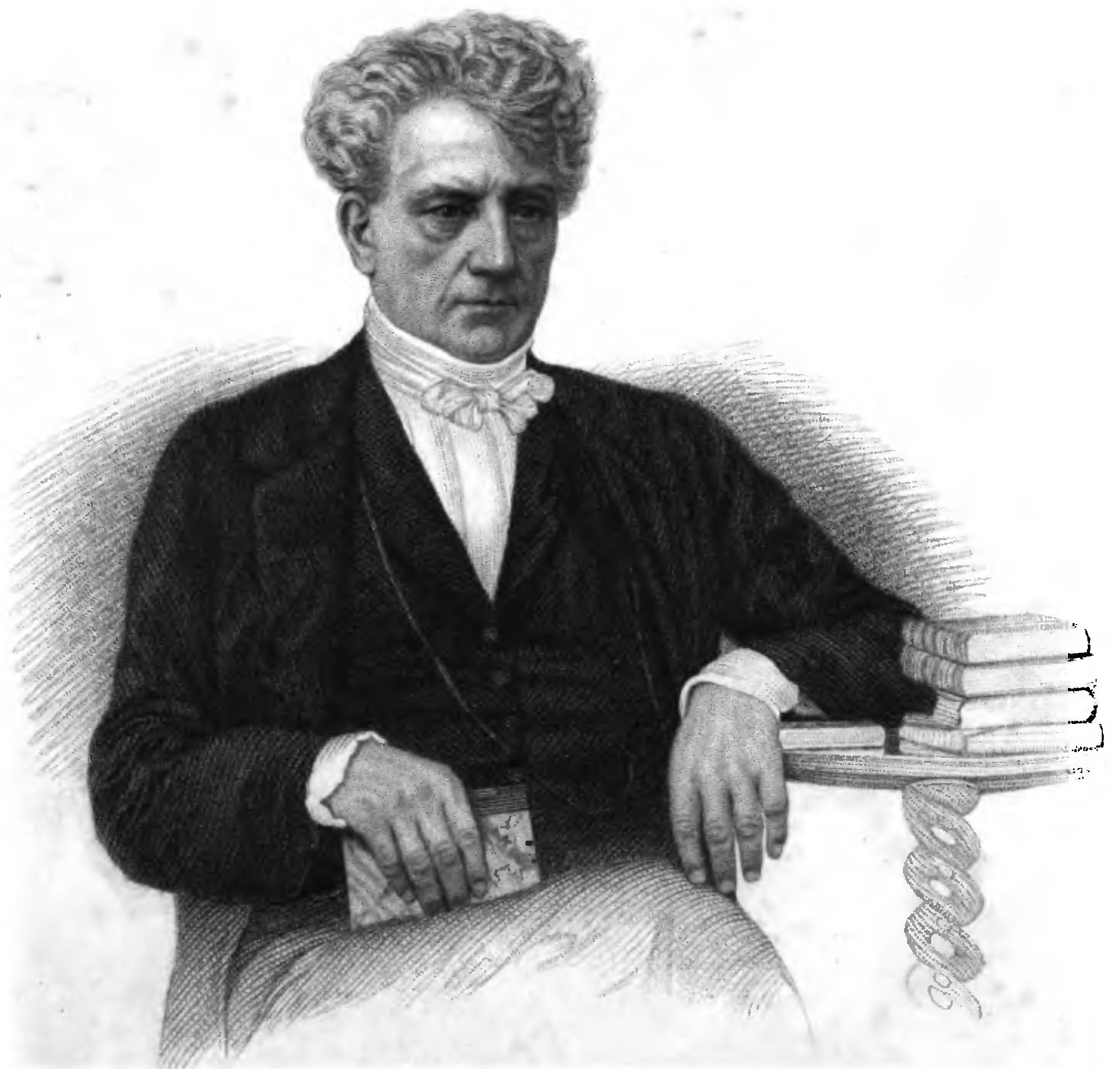 Book digitized by Google from the library of Princeton University and uploaded to the Internet Archive by user tpb.